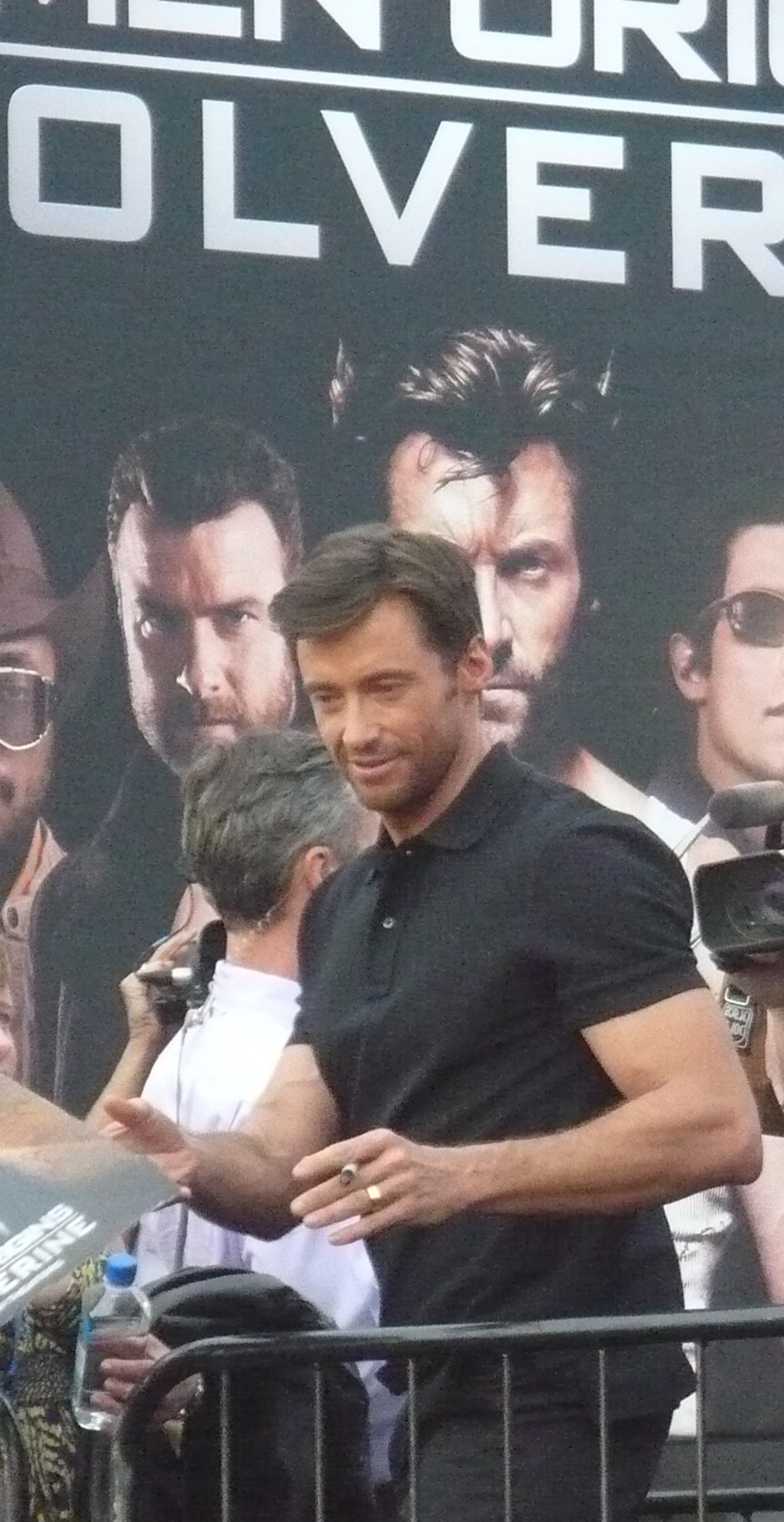 Hugh Jackman at the X-Men Origins: Wolverine premiere 2009